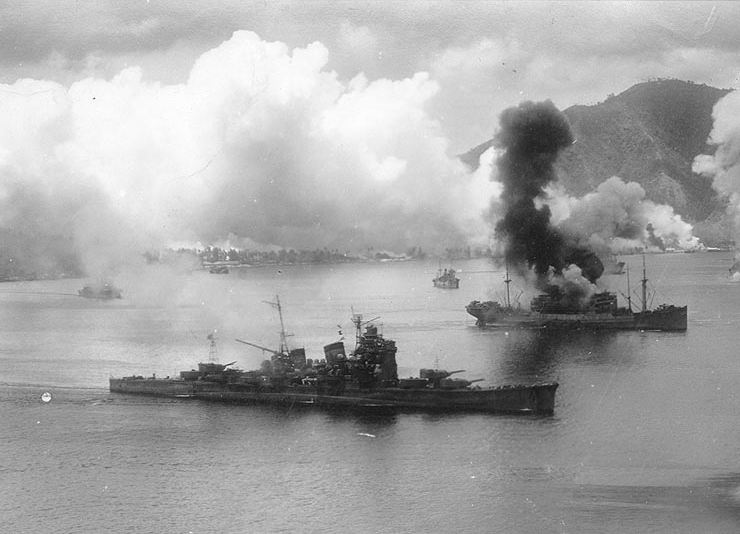 Aircraft of the USAAF 3rd Bomb Group attack Japanese ships in Simpson Harbor, 2 November 1943. The heavy cruiser Haguro is in the foreground. She had been somewhat damaged during the battle of Empress Augusta Bay the previous night. The burning transport at right appears to be one of the Hakone Maru class, of which Hakone Maru, Hakozaki Maru and Hakusan Maru were still afloat at the time. The ship in the left distance, partially hidden by smoke, appears to be the submarine tender Chogei or Jingei.